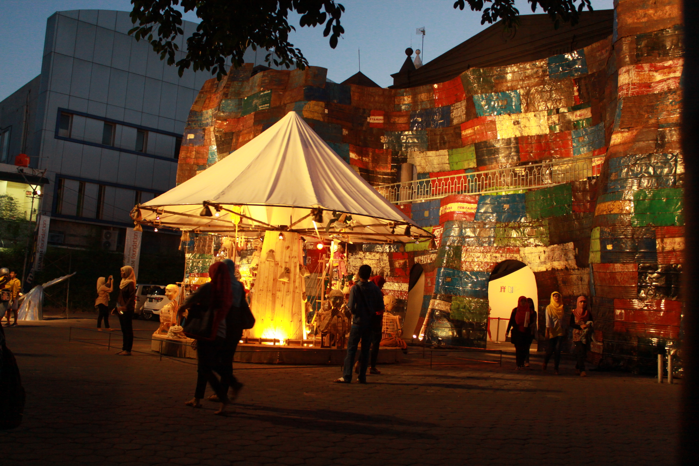 The Art Fair of the artists, held annually in Taman Budaya Yogyakarta, Indonesia